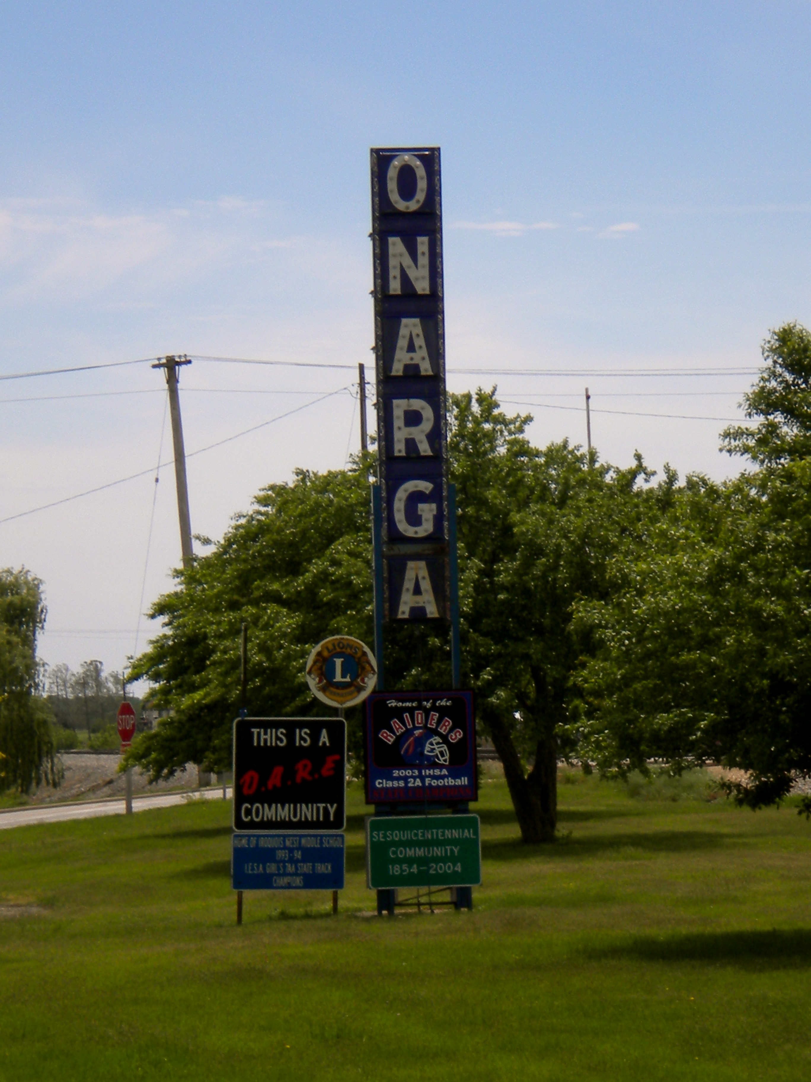 The town sign of Onarga, Illinois.